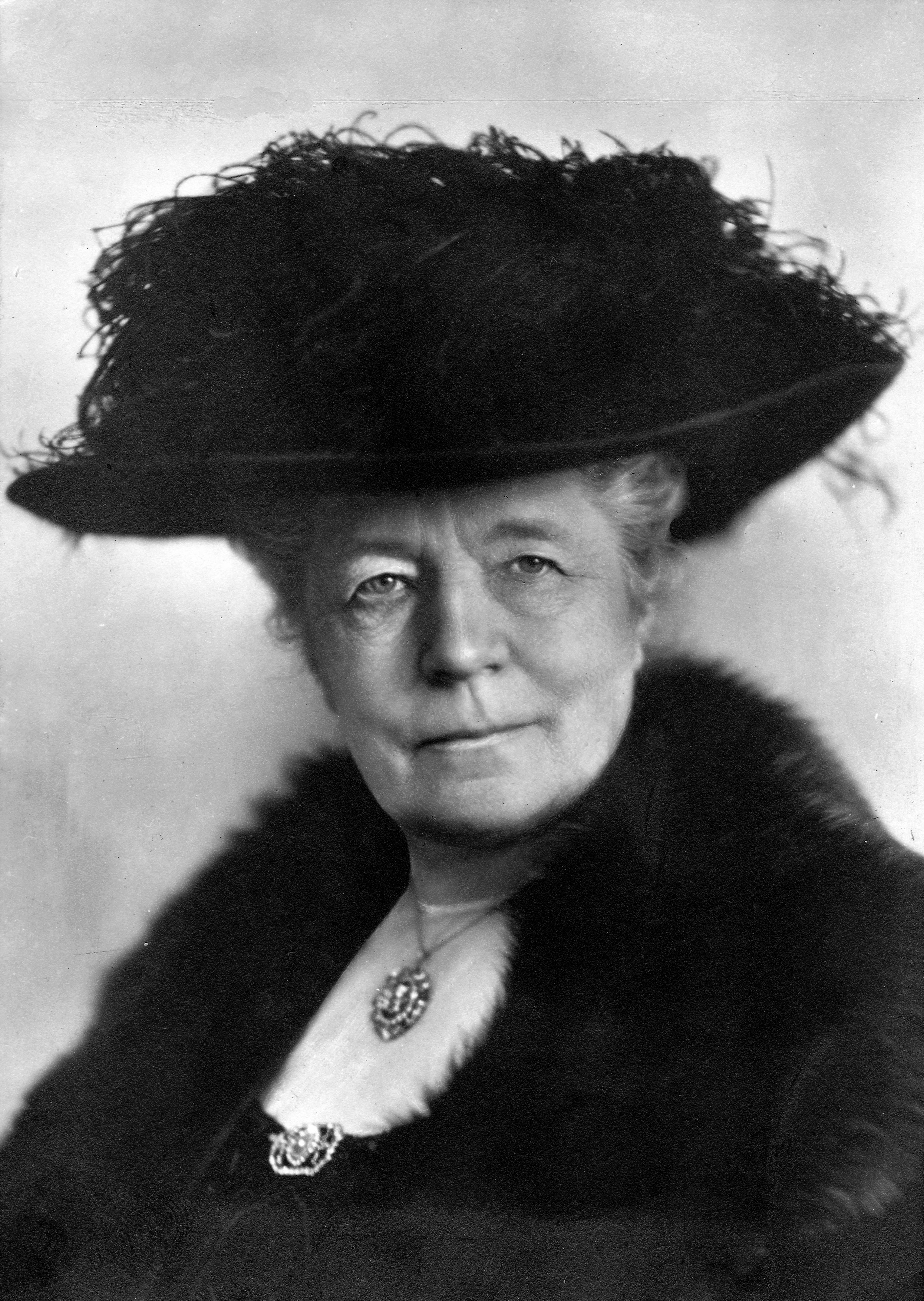 Photo of writer Selma Lagerlöf.